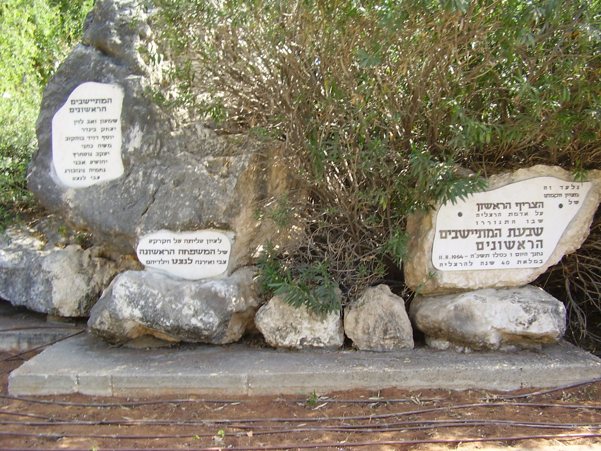 Herzliya founders square